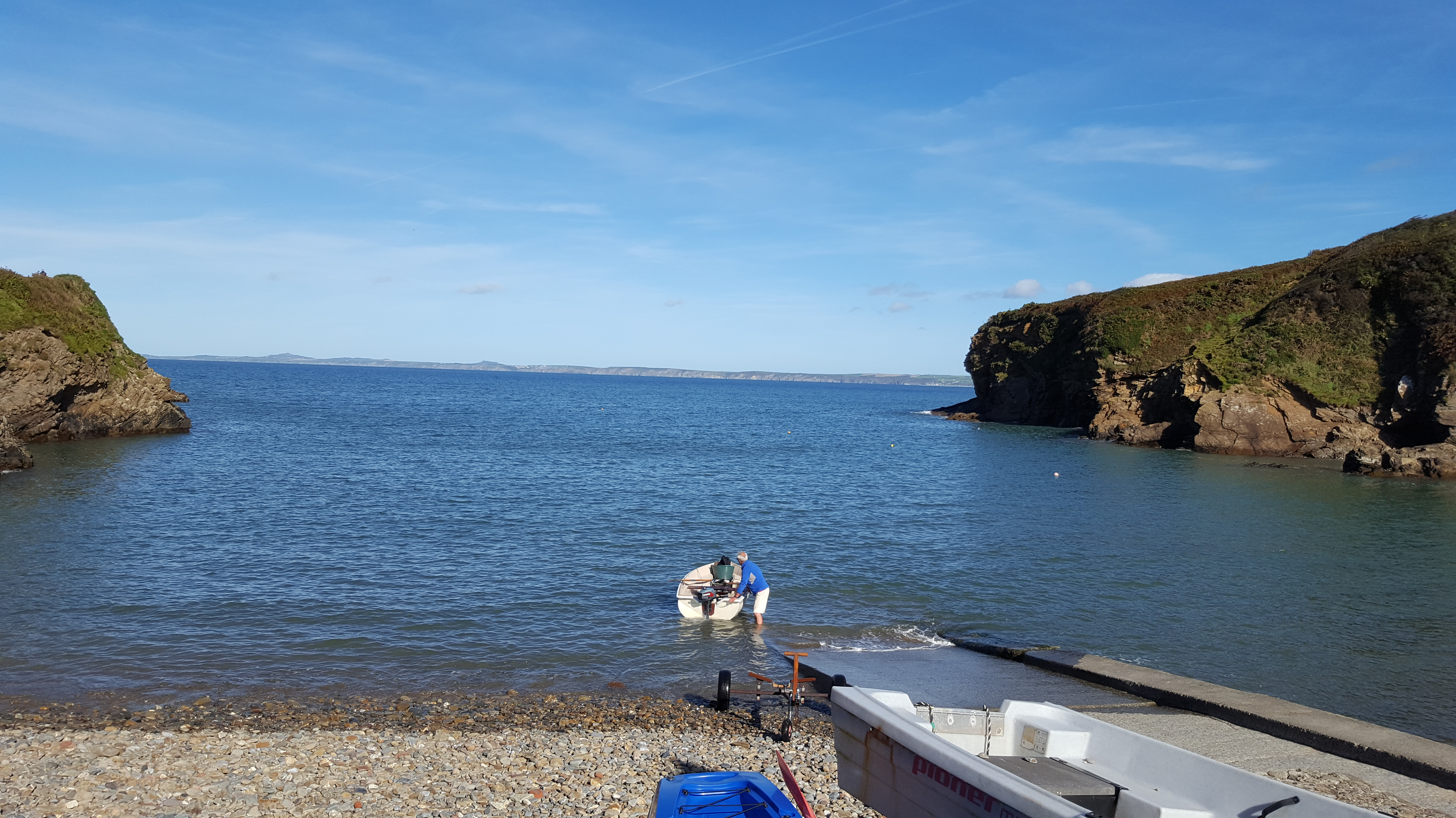 Little Haven in Pembrokeshire, Sept 16, tide in.